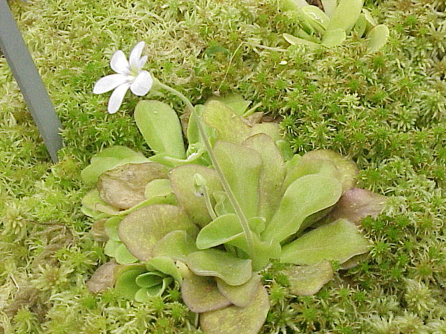 Species: Pinguicula agnata Family: Lentibulariaceae Image No. 1